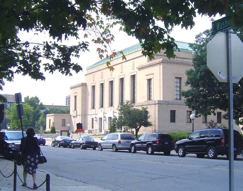 University of Michigan Rackham School of Graduate Studies. On East Washington St. in Ann Arbor.